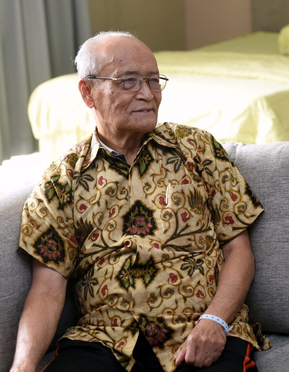 Minister of State Secretary, Pratikno, was sent by President Joko Widodo to visit the PKU Muhammadiyah Gamping Hospital, Sleman, Yogyakarta, on Saturday, July 27, 2019, to visit Ahmad Syafii Maarif who was being treated. The former Chairman of PP Muhammadiyah who is familiarly called Buya Syafii was treated since Wednesday, July 24, 2019